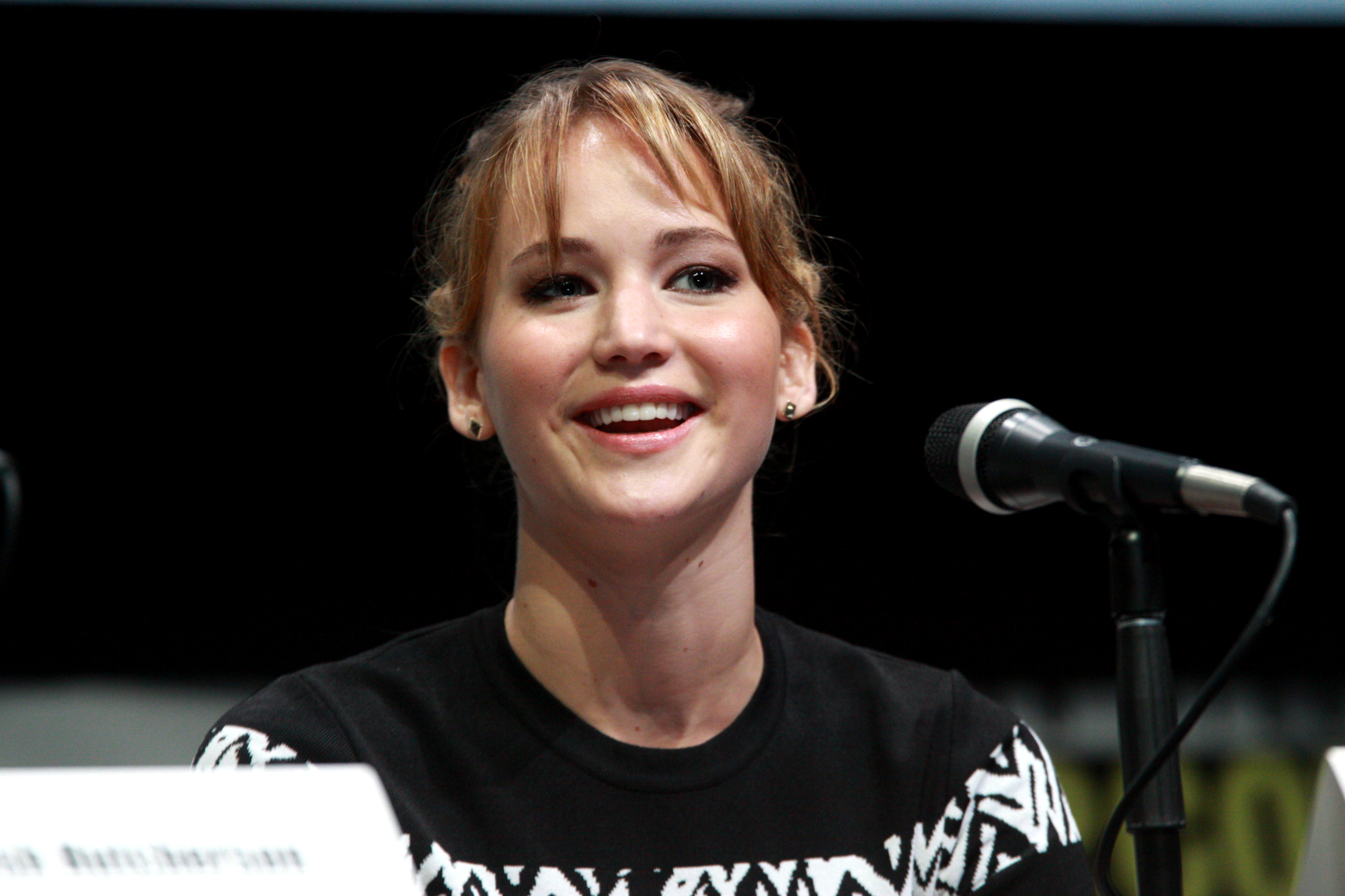 Jennifer Lawrence speaking at the 2013 San Diego Comic Con International, for "The Hunger Games: Catching Fire", at the San Diego Convention Center in San Diego, California.